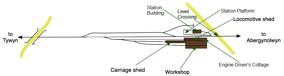 labelled track plan of the original layout of Pendre station, pre-preservation